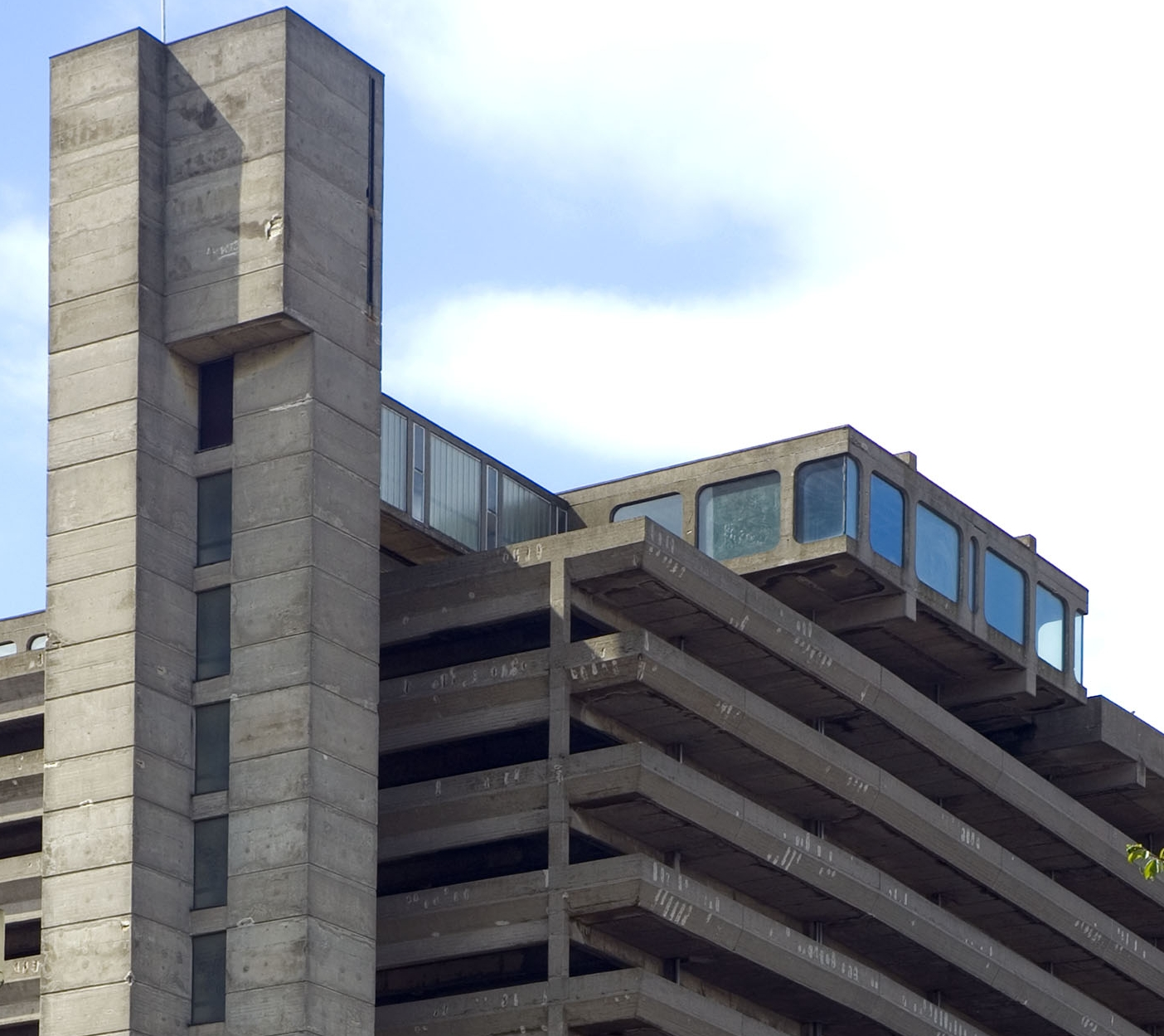 Trinity Centre Car Park, Gateshead, July 2007. Architect: Owen Luder. See also